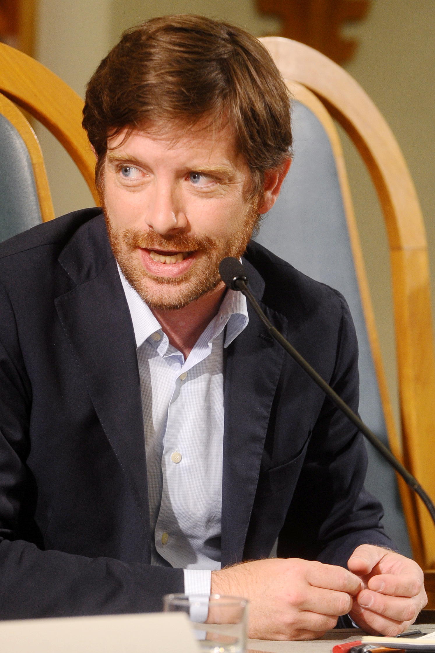 Giuseppe Civati at the Festival of Economics in Trento.